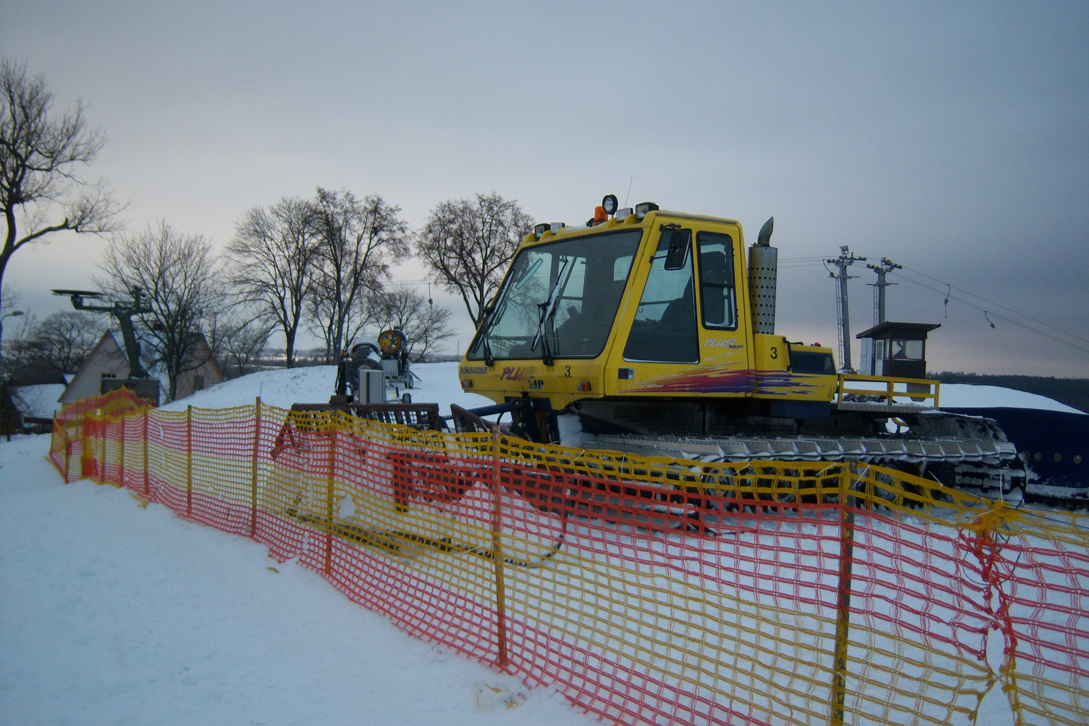 Snow groomer, Kalita alpine skiing slope, Anykščiai, Lithuania